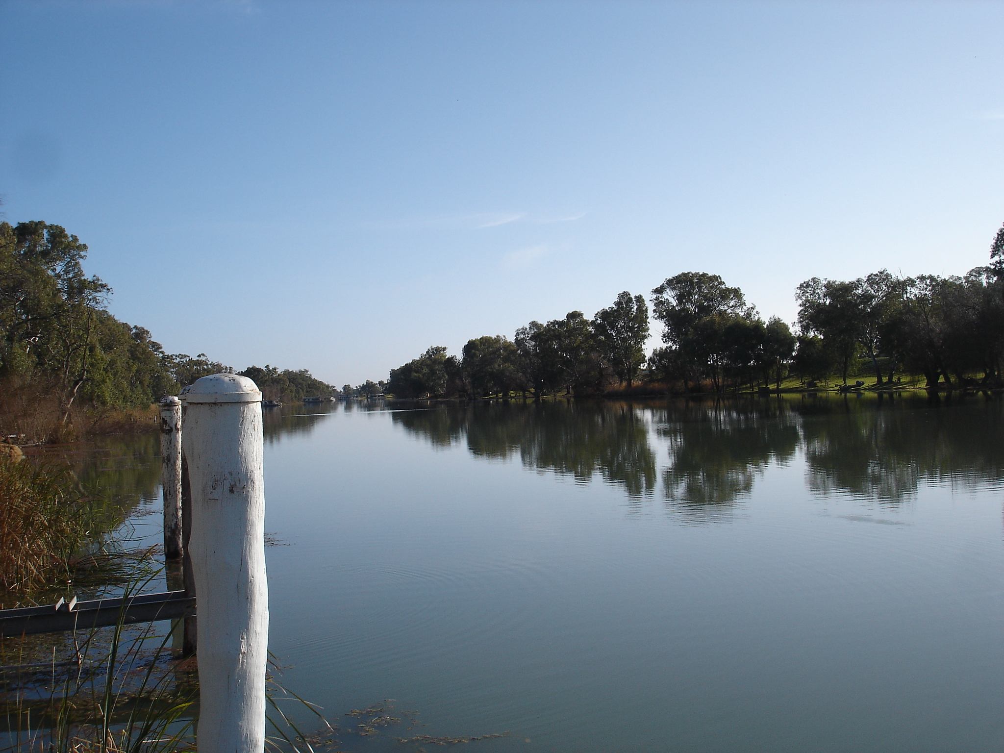 The Darling River at Wentworth, New South Wales (looking upstream)